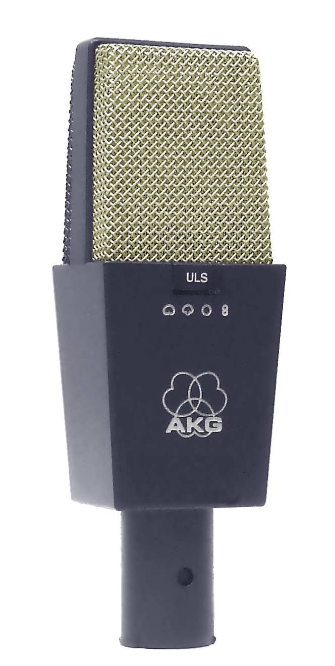 An AKG C414 microphone from the front